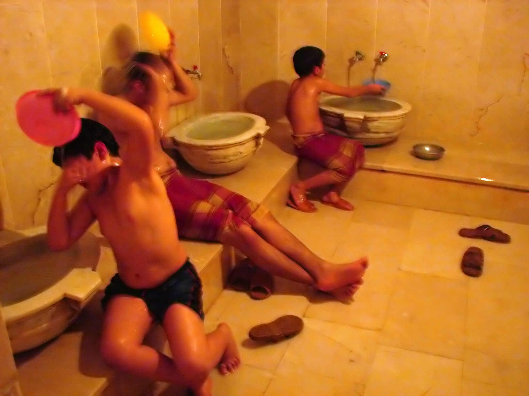 A hammam.